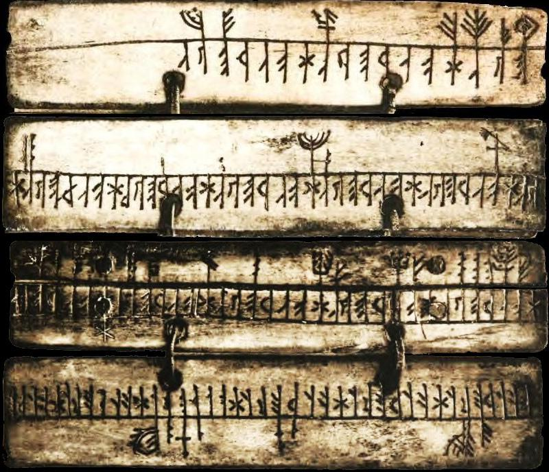 Four of Six plates on a Sami i.e. Laplander Runic Calendar. The Calendar is carved in reindeer horn. Eiríkr Magnússon suggests a date between 1230 – 1391 CE for the prototype of this particular calendar. Source: On a Runic Calendar Found in Lapland in 1866: Communicated to the Cambridge Antiquarian Society, March 20, 1877.